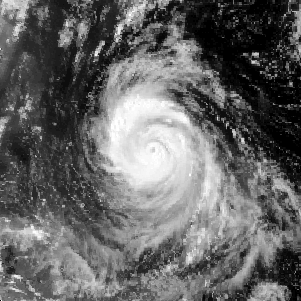 Typhoon Janis on August 6, 1992